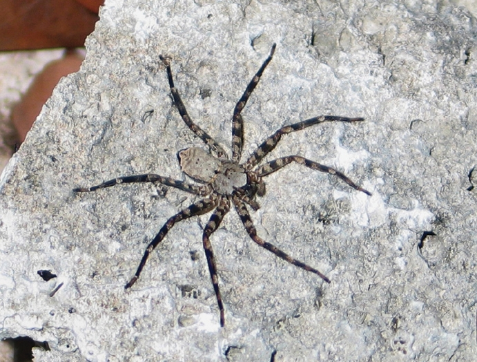 Selenops simius